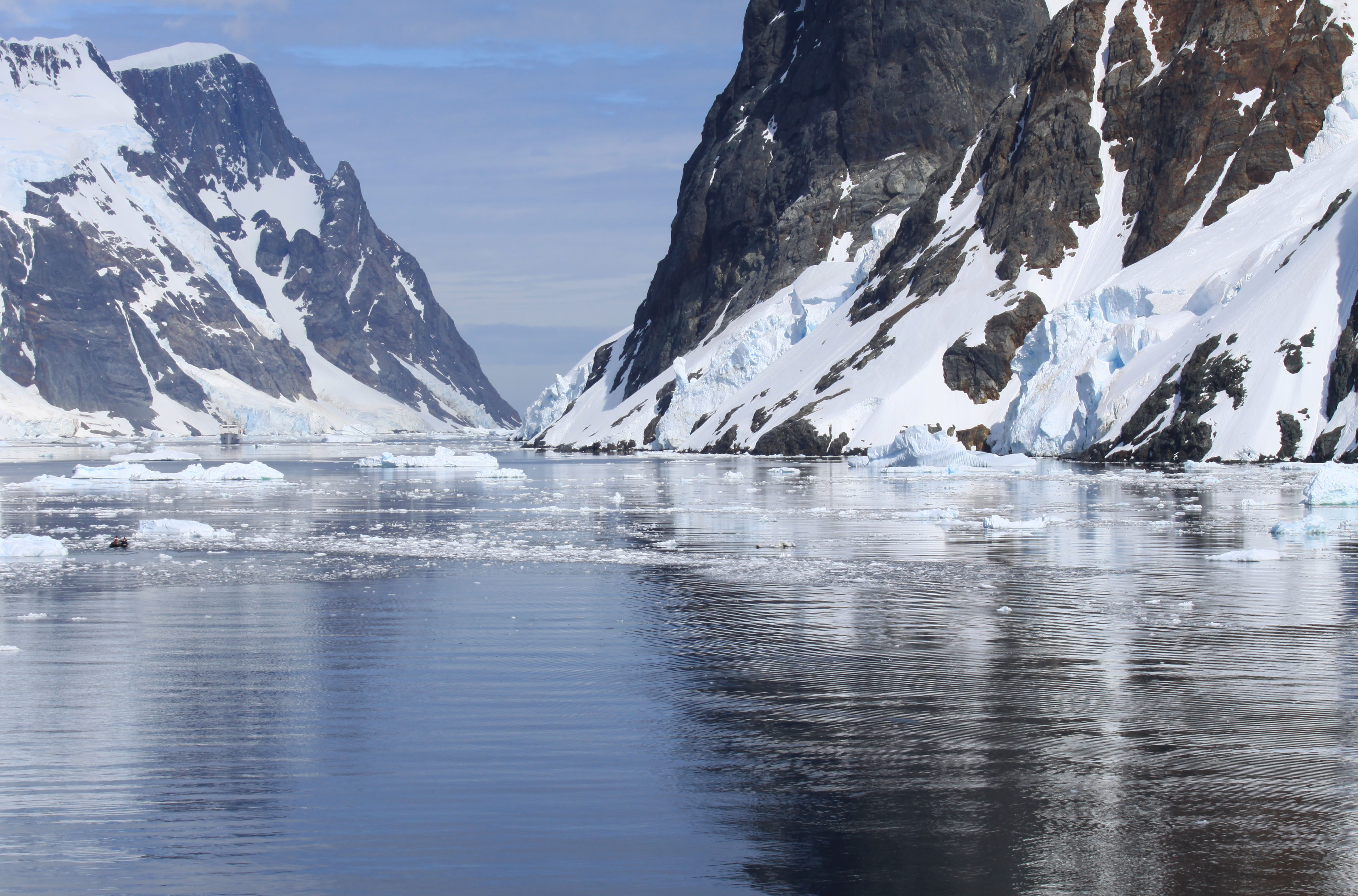 Entree to Lemaire Channel